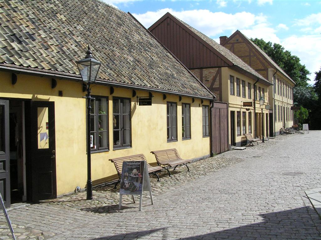 Photo: Bengt Olof ÅRADSSON